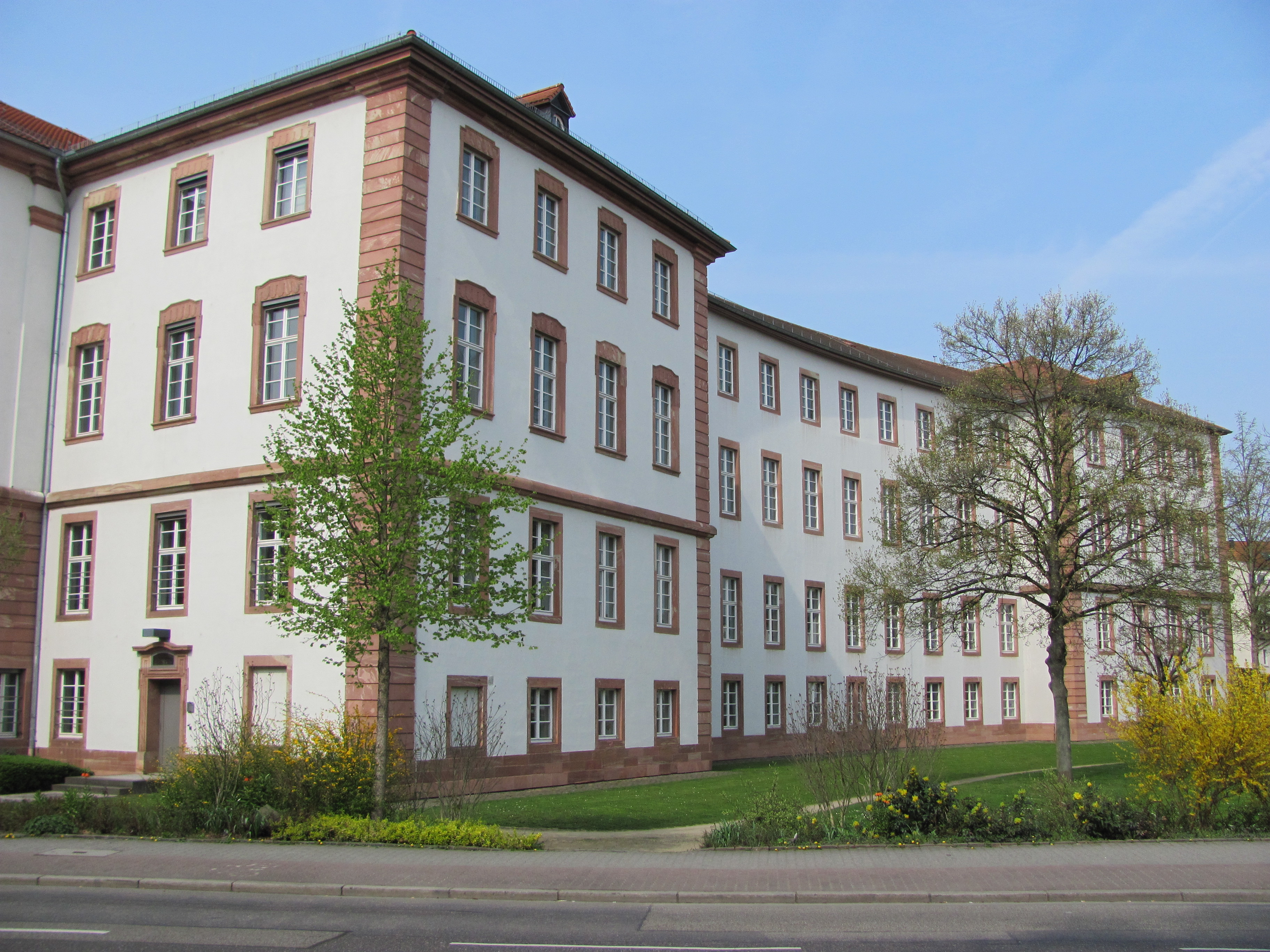 Court building Hanau